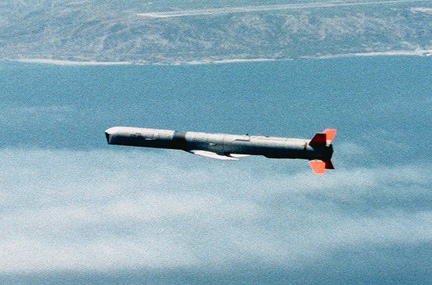 AGN-84H SLAM-ER in flight